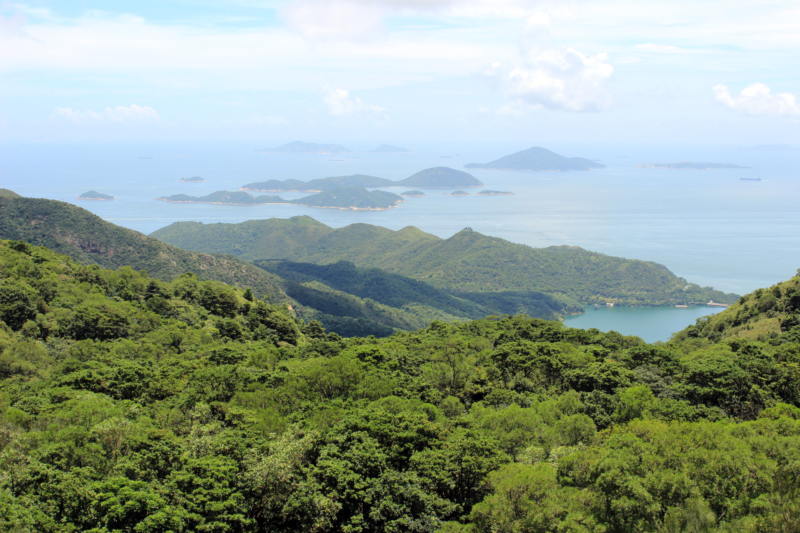 The panorama from Tian Tan Buddha